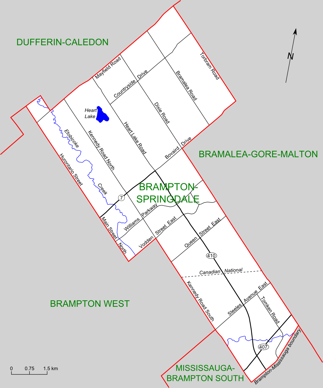 Map of the Ontario federal and provincial riding of Brampton-Springdale (defined federally in 2003 and adopted provincially in 2007)